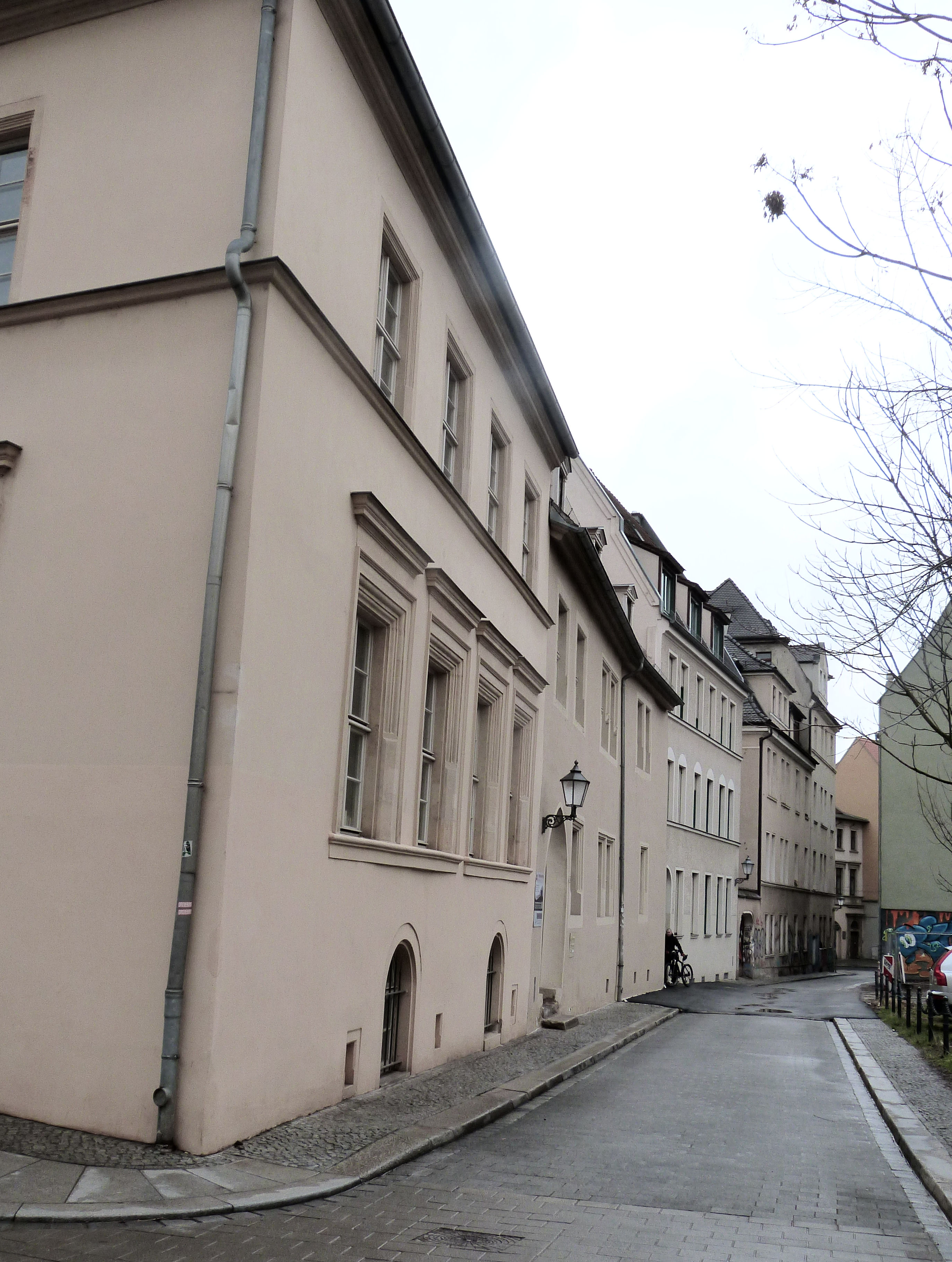 Alley Kutschgasse in Halle (Saale), view from the square Kleiner Berlin